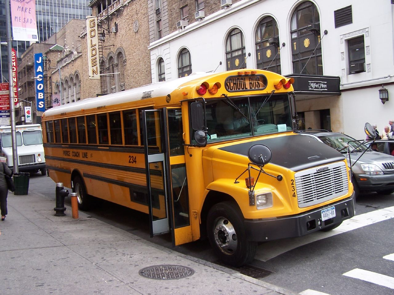 A photograph of a school bus taken in New York, New York. The bus has a body from Thomas Built Buses of High Point, North Carolina with an early to mid-2000s Freightliner FS-65 chassis.